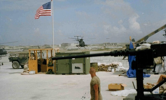 Barber 53 and 54 launch Oct 3